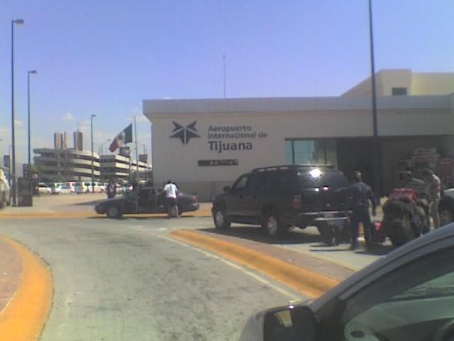 View of TIJ Main Terminal